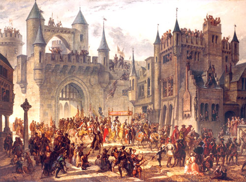 Entrance of king Henri II of France in Metz, ending of the Republic of Metz. Oil painting of Auguste Migette.